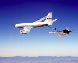 F-22 Raptor 01 piloted by LTC Steve Rainey receives the program's first aerial refueling. A specially instrumented KC-135 Stratotanker performed the refueling July 30, 1998 over Edwards Air Force Base. Both aircraft are assigned to the Air Force Flight Test Center at Edwards.